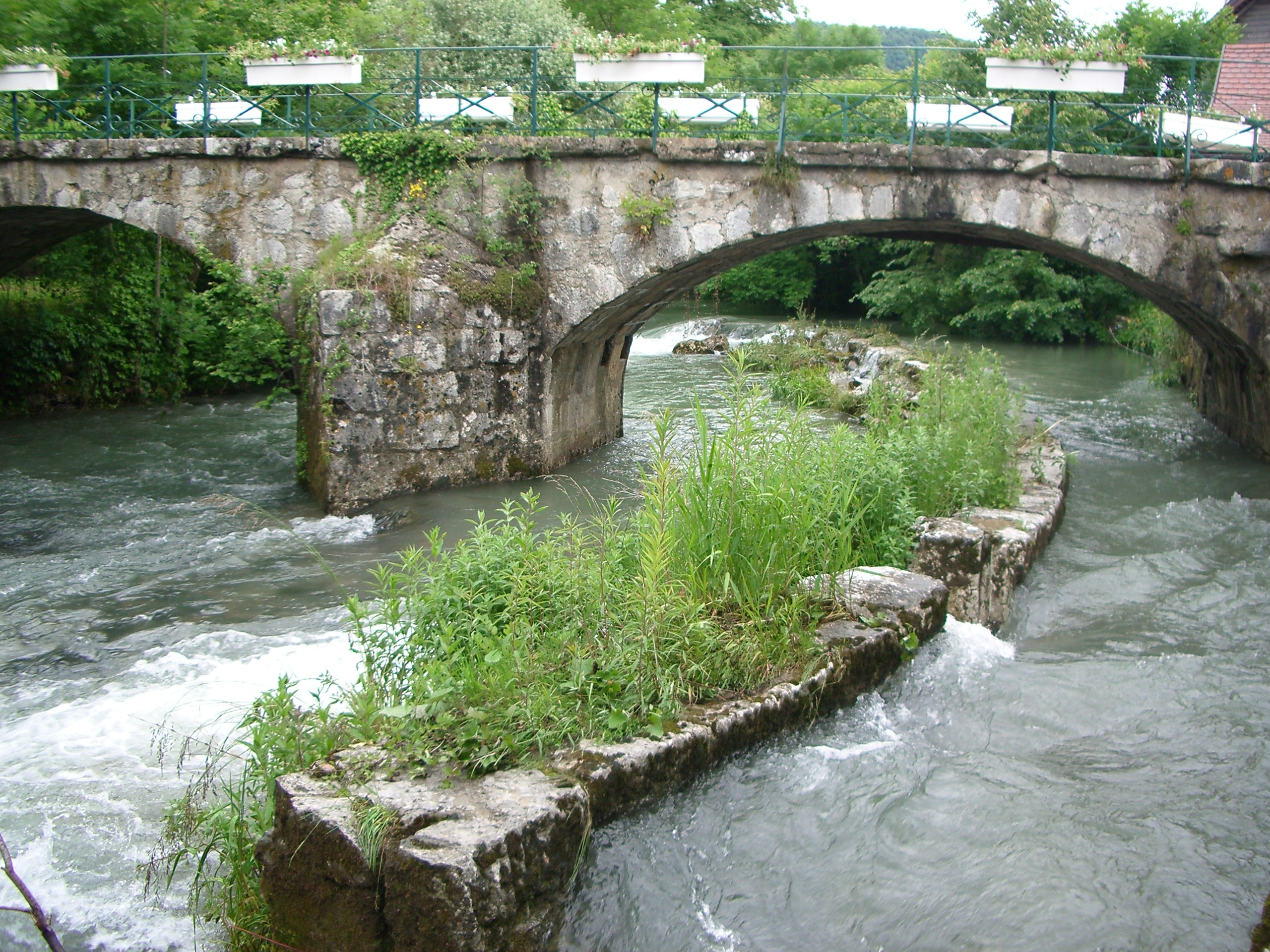 Eau morte River in Verthier, France